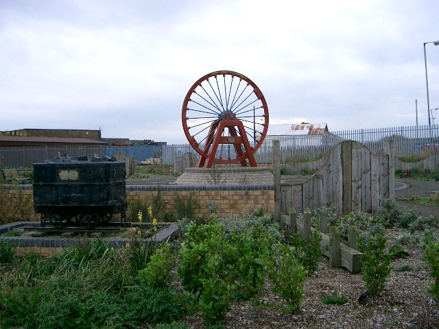 Winding Wheel This is the winding wheel and coal tub on the site of the Old Cambois Colliery.